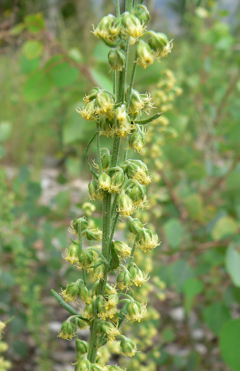 Artemisia michauxiana alongside the South Loop trail, Kyle Canyon, Spring Mountains, southern Nevada (elev. about 2500 m)